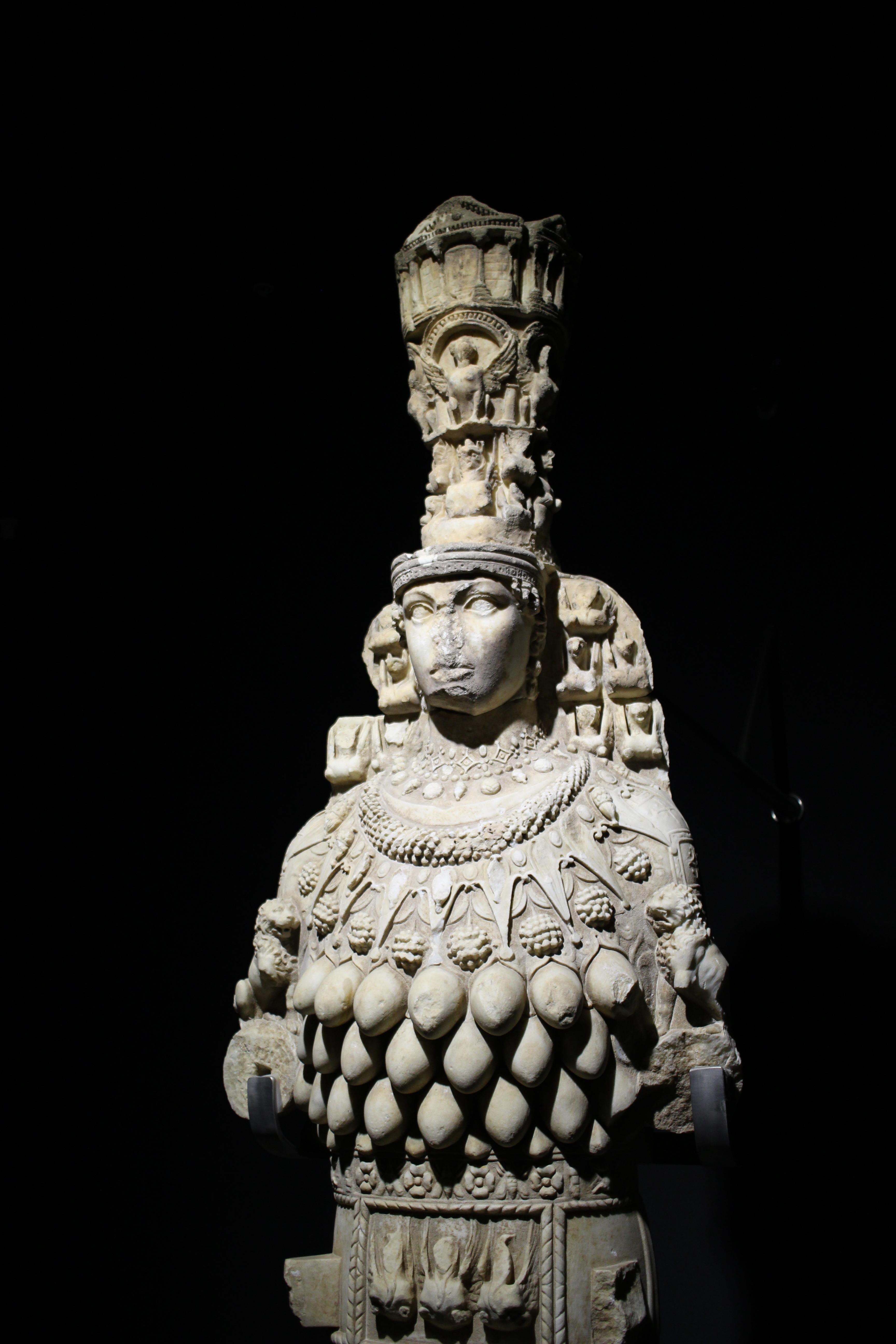 Artemis Ephesus Museum, Turkey